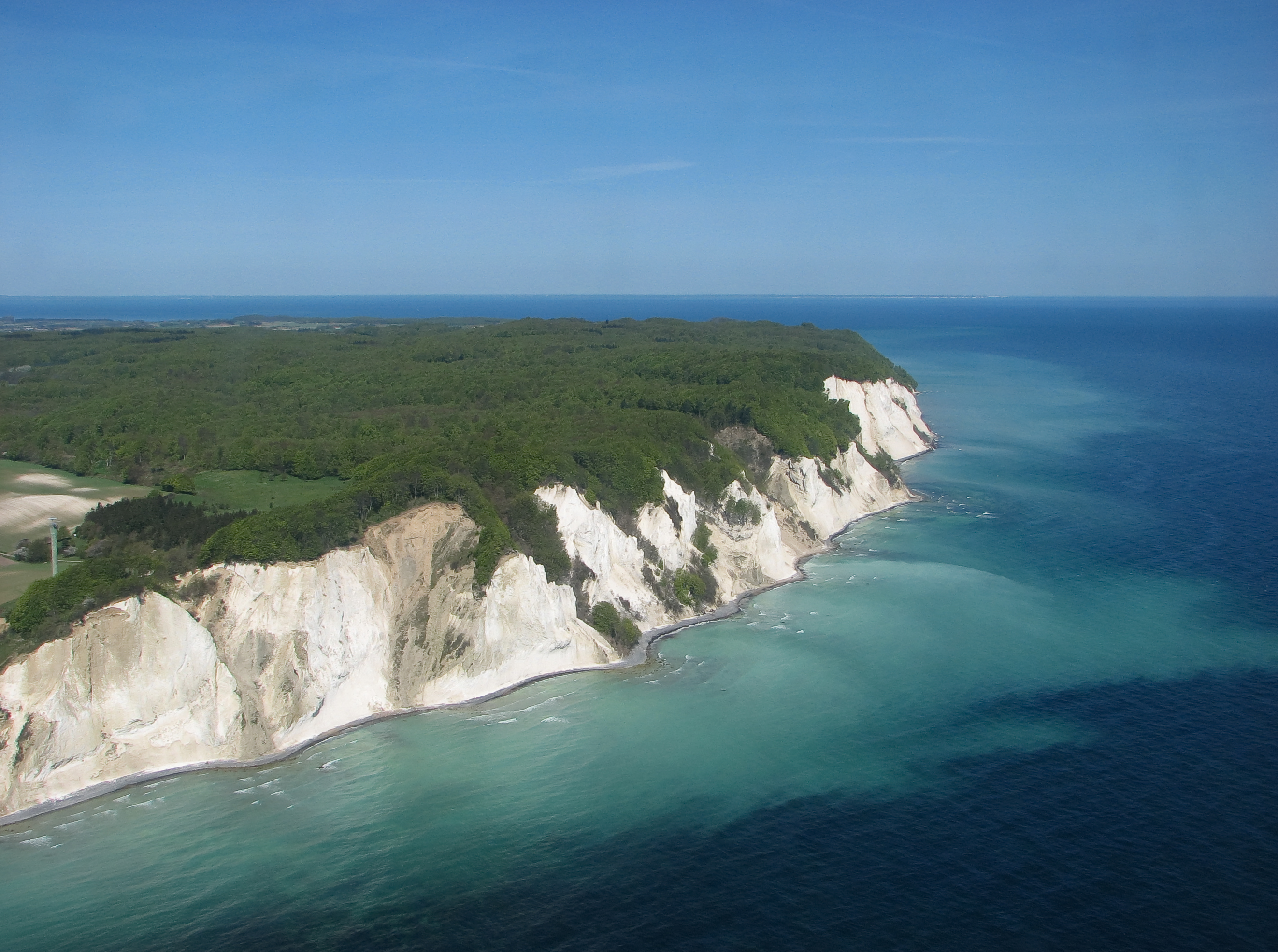 An aerial photo of Møns Klint (the Cliffs of Møn) in Denmark. The cliffs seen from South East.